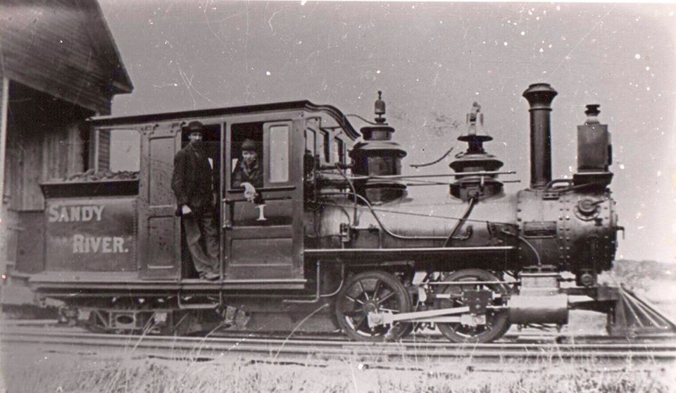 Sandy River Railroad's 2-foot gauge Forney locomotive No.1 at Phillips, Maine